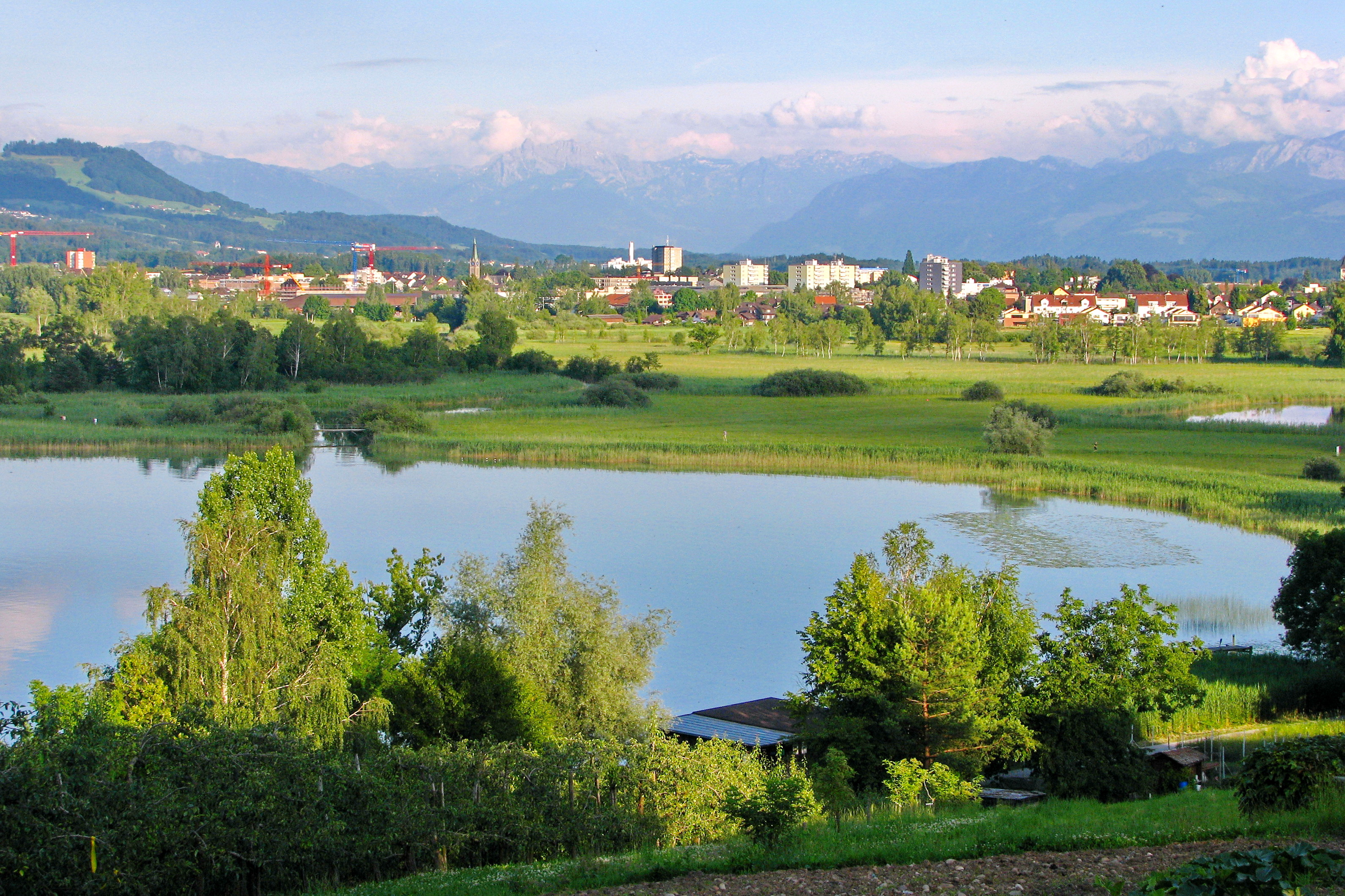 Kempten respectively Wetzikon (to the right) and Pfäffikersee as seen from Seegräben, Bachtel-Hasenstrick (to the left) and Alps of Glarus in the background.